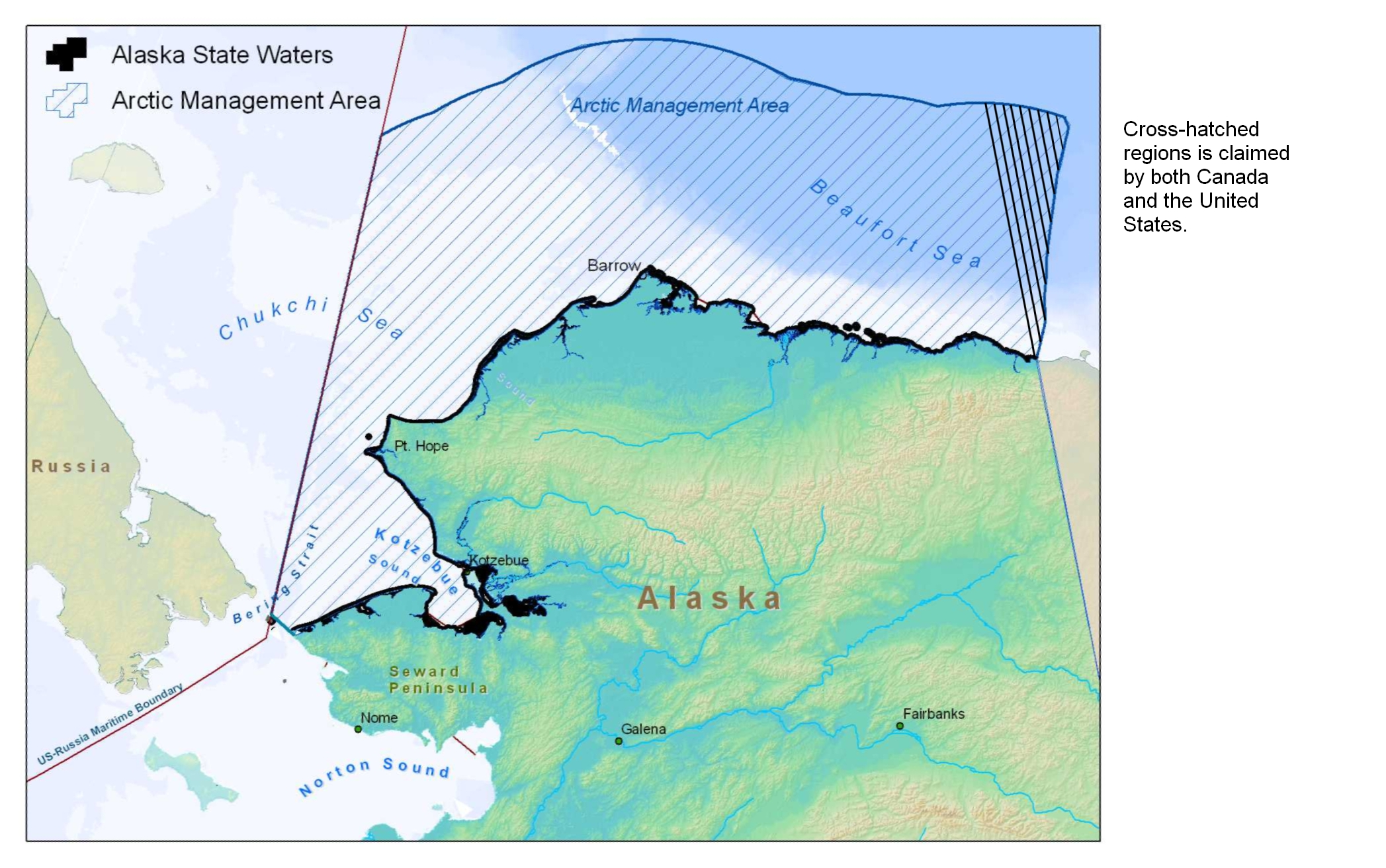 On August 20 2009 Secretary of Commerce Gary Locke announced a moratorium on commercial fishing in the Arctic Management Area.